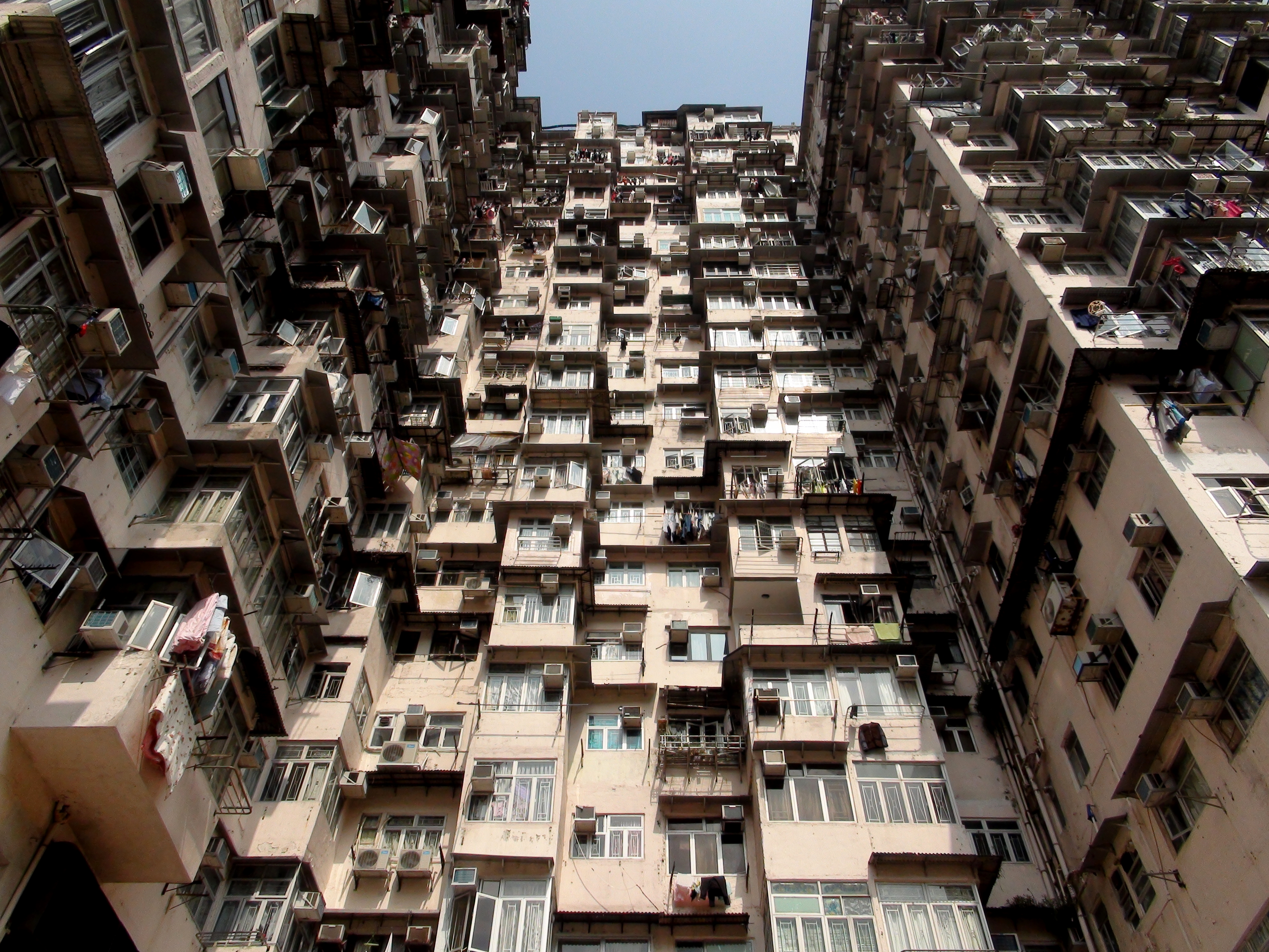 Montane Mansion Quarry Bay Hong Kong